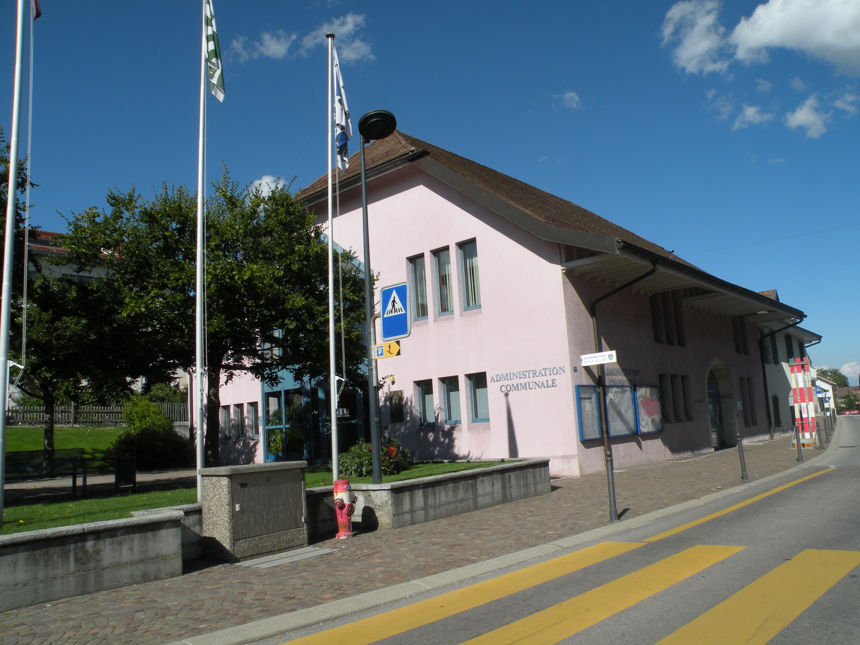 Town hall of Begnins